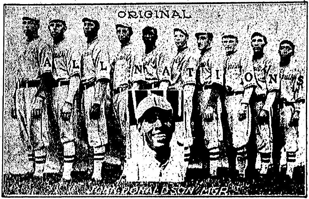 This photo is extremely common and shows up in Newspapers from 1913 to 1923. It is a stamp or print made as early as 1913 and was used until at least 1923, passed around to major newspapers in the midwest of the United States where the All Nations played baseball.